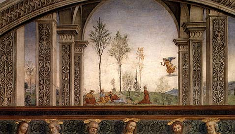 PERUGINO, Pietro The Last Supper Fresco, 440 x 800 cm Convent of Fuligno, Florence